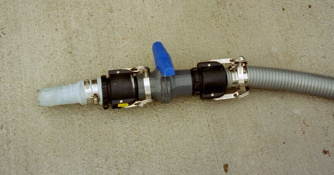 Conical nozzle and valve